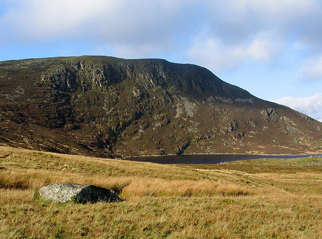 Moorland above Llyn Arenig Fach, near to Bryn du [other Features], Gwynedd, Great Britain. Arenig Fach behind Photograph taken on day 15 of my cross-Wales walk at Link Previous shot SH7932 : Cairn above Nant Ddu , next pending submission